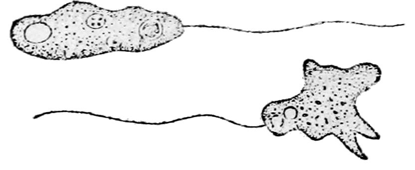 Title: Algen I. (Schizophyceen, Flagellaten, Peridineen) Year: 1910 (1910s) Authors: Lemmermann, E Subjects: Algae -- Germany Publisher: Leipzig, Gebrüder Borntraeger Text Appearing Before Image: SD6 — Text Appearing After Image: Fig. 1—2. Mastigamoeba invertens. 3—4. M. longifilum. 5. MulHciUa laeusiris. 6—7. Pteri- domonas pulex. 8. Actinomonaa mirabilia. 9—11. Dimorpha mutant " 12—15."" Cereo^odo agüis. 16. Mastigamoeba radicula. 17—18. M. polyvacuolata. 19. Cercohodo sttnpiKB.